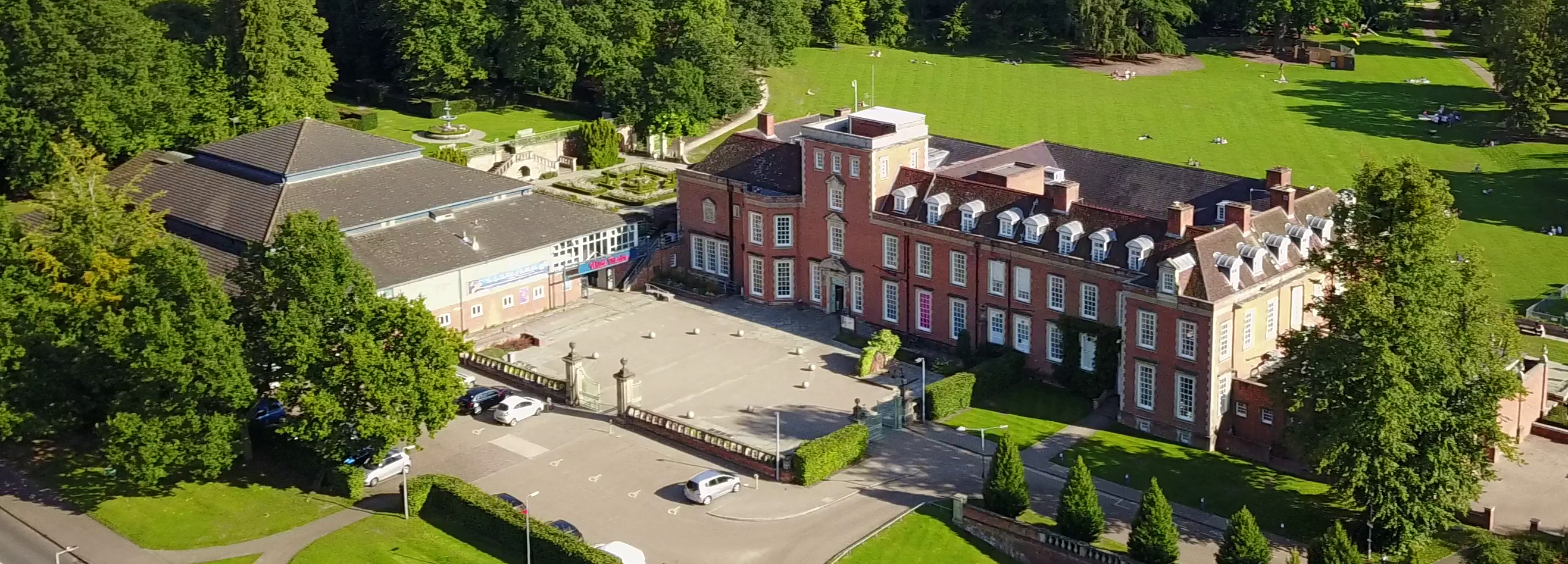 South Hill Park Arts Centre Wikidata has entry Q7567474 with data related to this item. front view